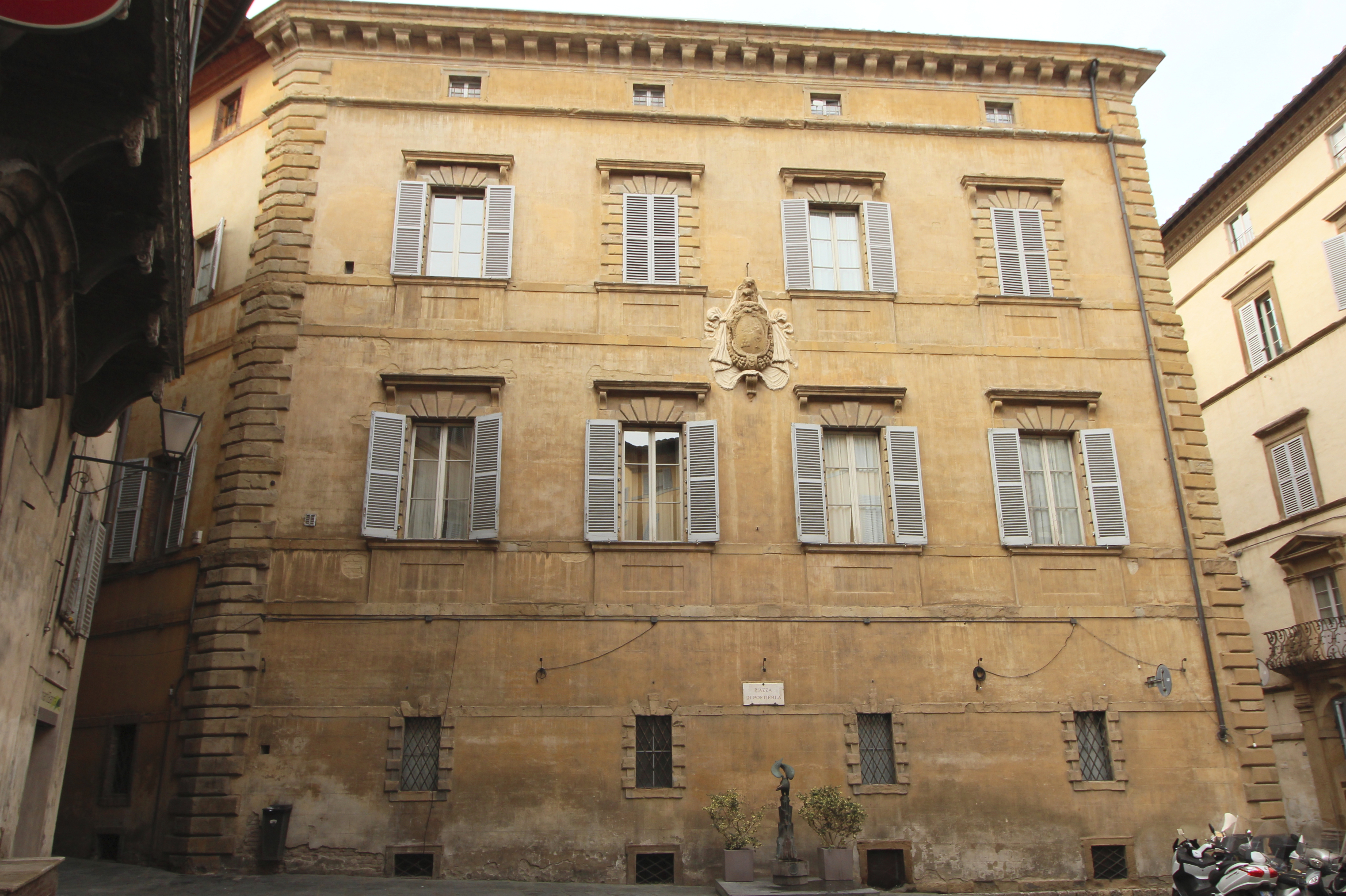 The Palazzo Chigi-Piccolomini alla Postierla at the Quattro Cantoni in Siena, Tuscany, Italy